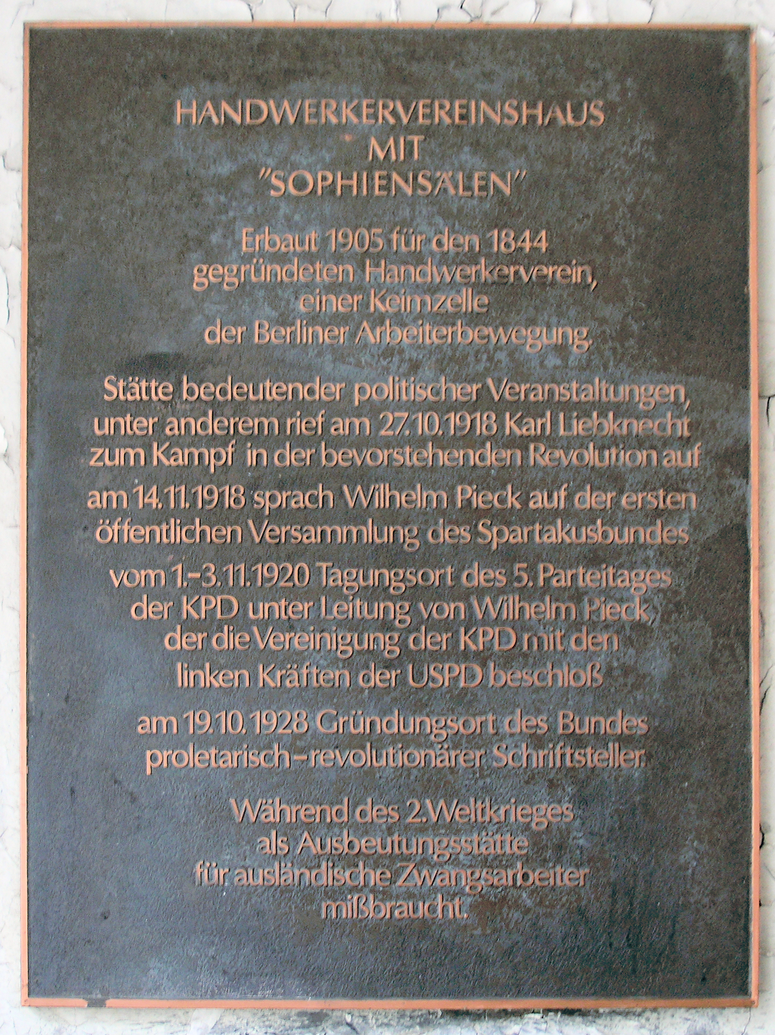 Memorial plaque, Handwerkervereinshaus mit Sophiensälen, Sophienstraße 18, Berlin-Mitte, Germany